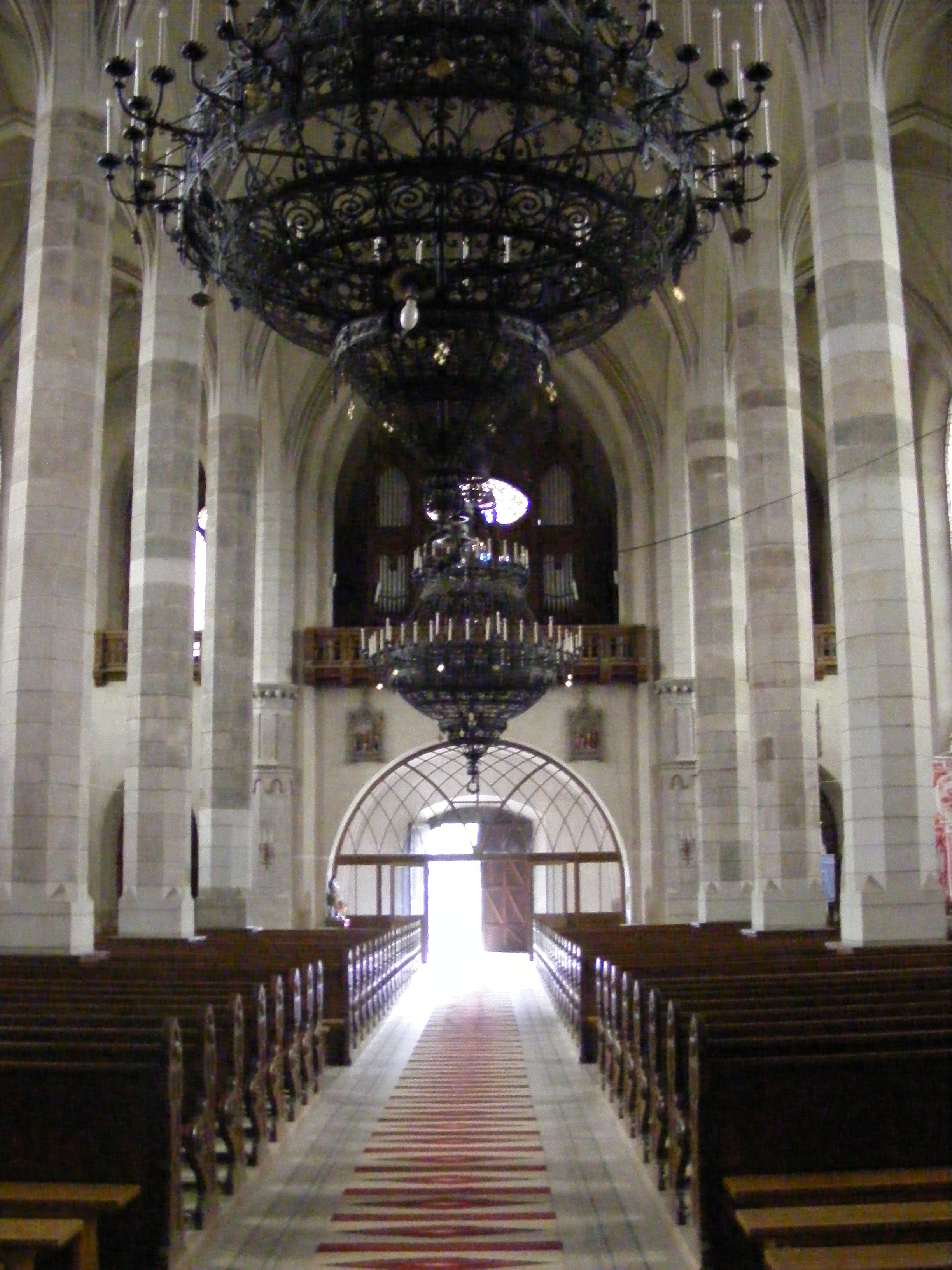 The romano-catholic church in Ditró, inside.